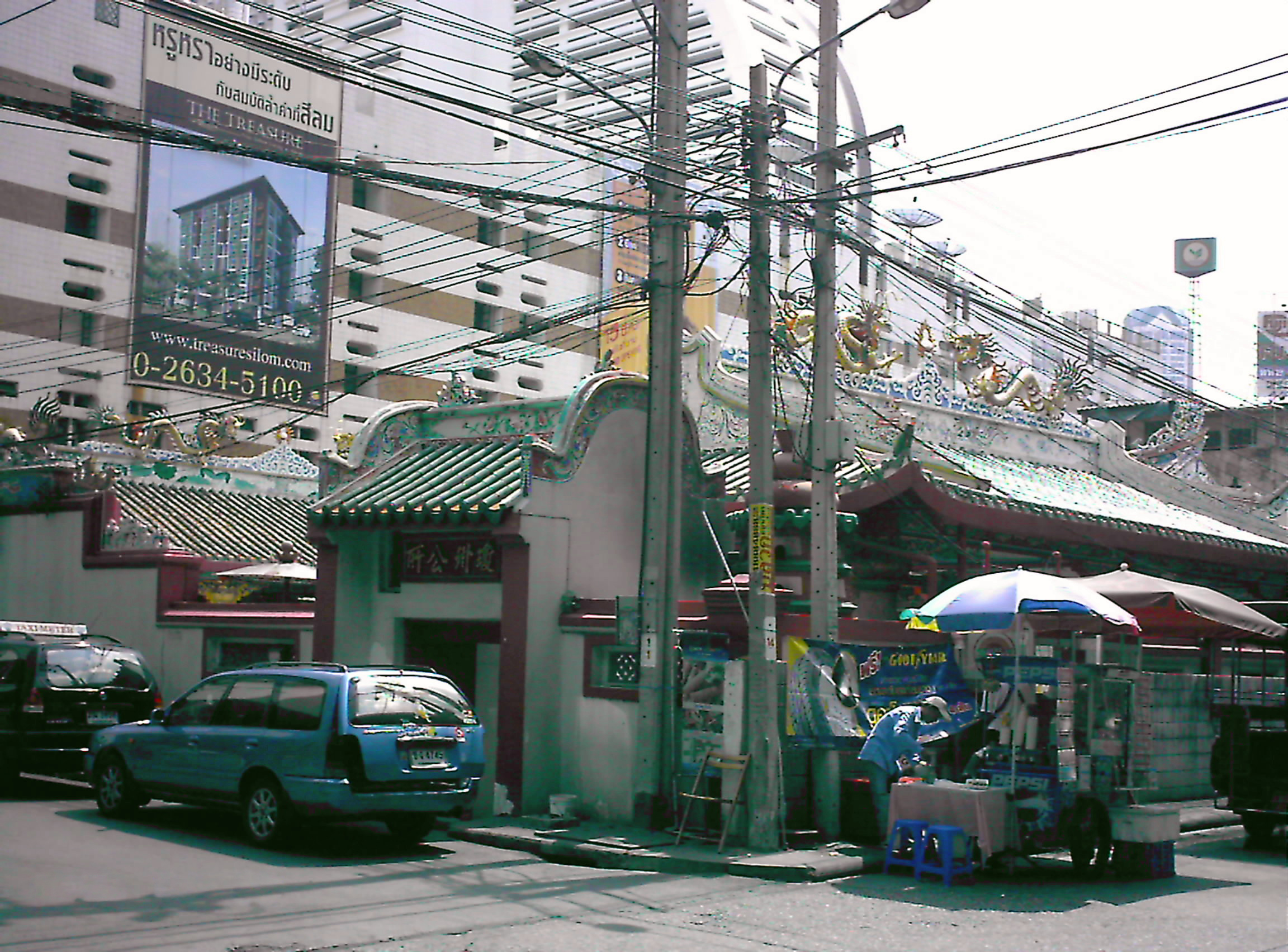 Hainan Temple near Saphan Taksin Station, Bangkok, Thailand. 中文（香港）: 泰國，曼谷，挽叻縣，瓊州公所